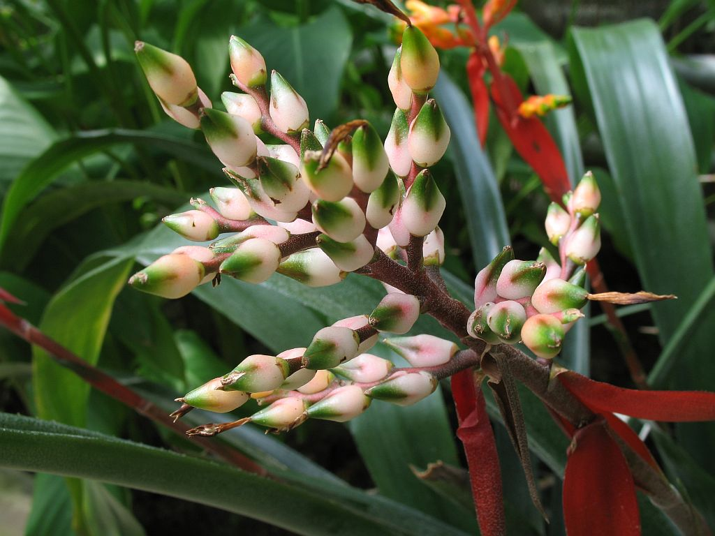 Aechmea penduliflora, in cultivation at the Botanical Garden of Heidelberg, Germany.